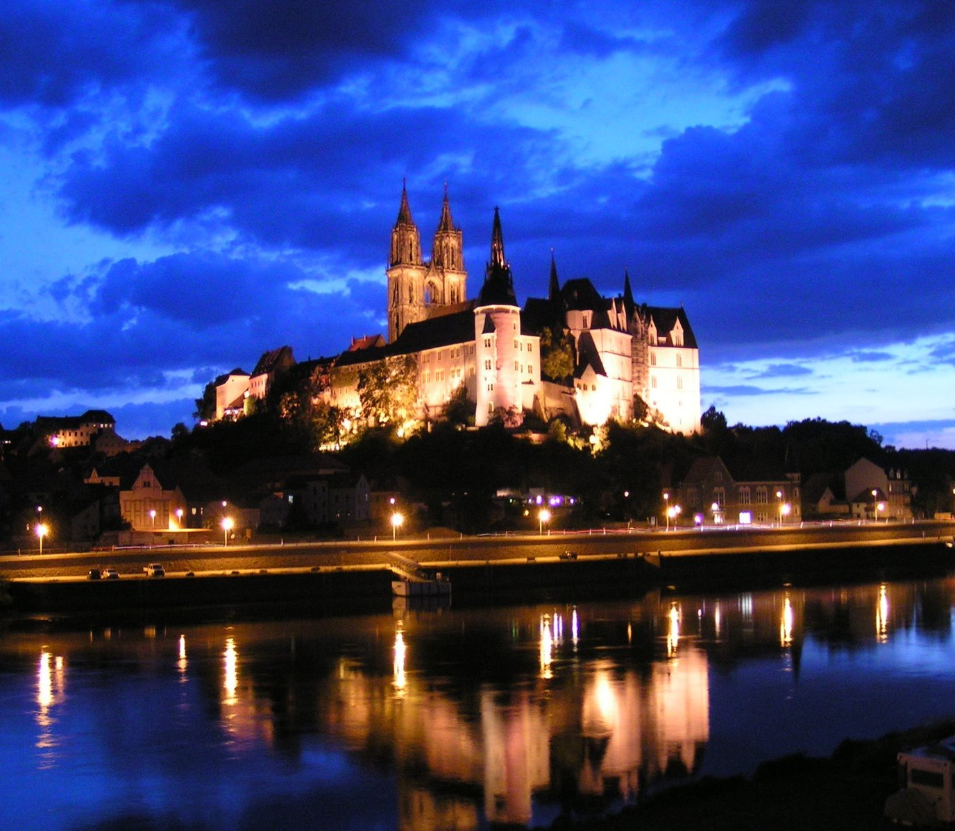 Photo of Meissen by Bob Tubbs, 28 July 2007